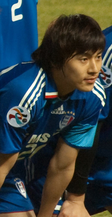 AFC Champions League 2009 Squad of Suwon Samsung Bluewings at 11 Mar 2009 against Kashima Antlers of J-League.